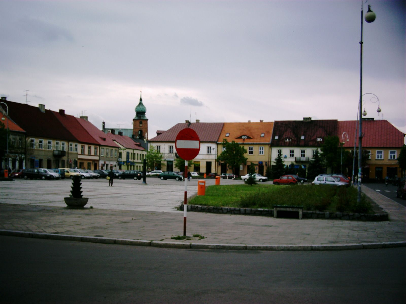 Market on old city